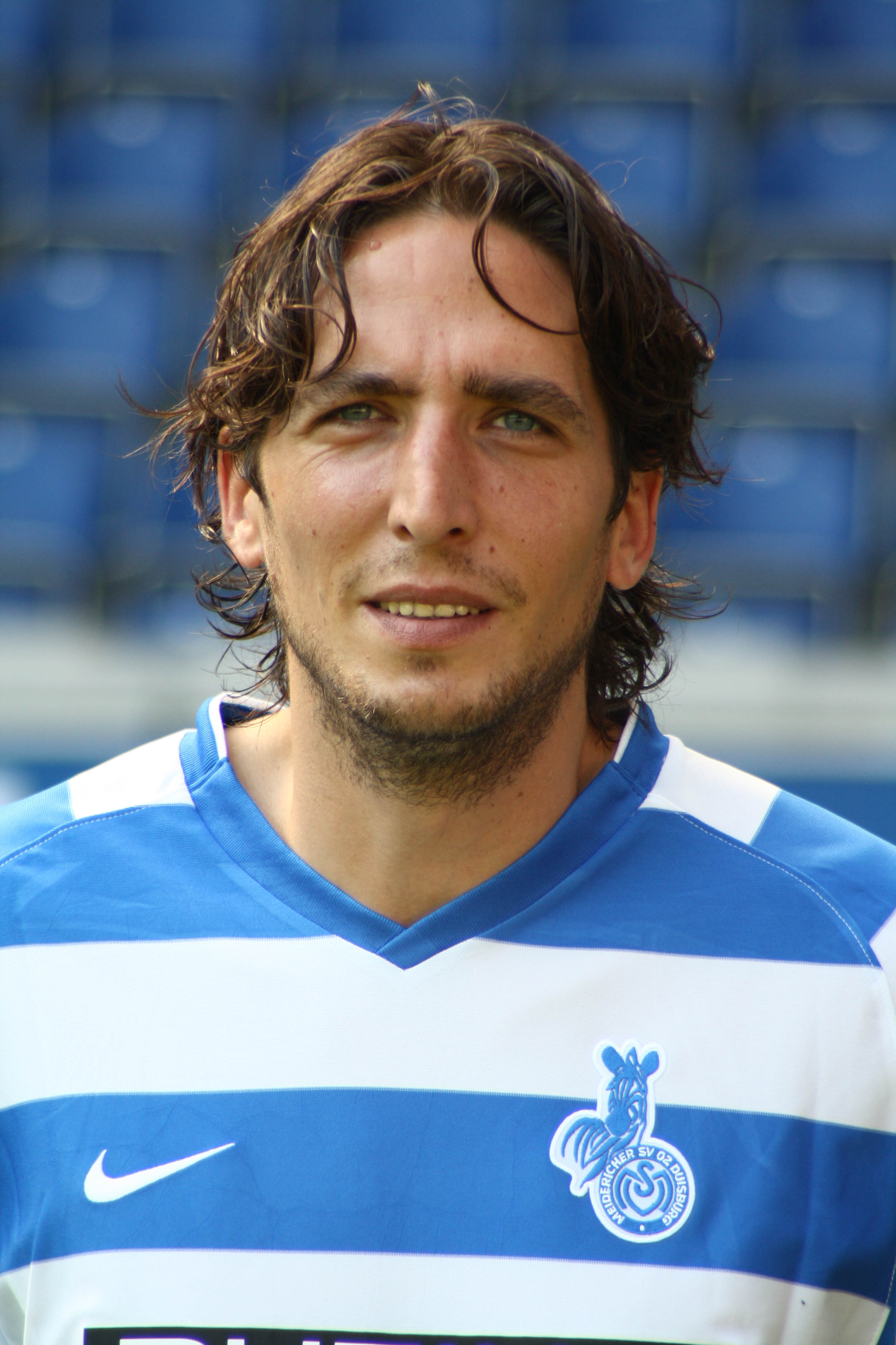 Ivica "Ivo" Grlic, MSV Dusburg